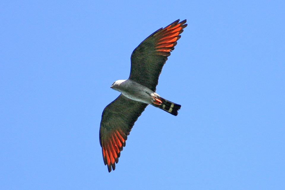 Plumbeous Kite (Ictinia plumbea), Mocana, Misiones